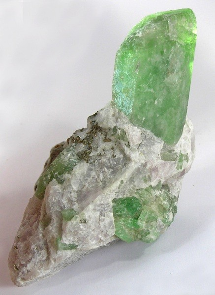 Diopside Locality: Gilgit, Gilgit District, Northern Areas, Pakistan (Locality at ) Size: 9.2 x 4.9 x 2.7 cm. For all its prodigious production of mineral specimens, the Gilgit area is not known for its diopsides, and particularly of this size: a crystal measuring 4 cm tall by 2.5 cm wide! It is TERMINATED and complete all around - jutting out of matrix, with a sidecar crystal on one side (also terminated). The crystal has a pretty grass-green color, and is translucent. very unusual specimen, I would say.